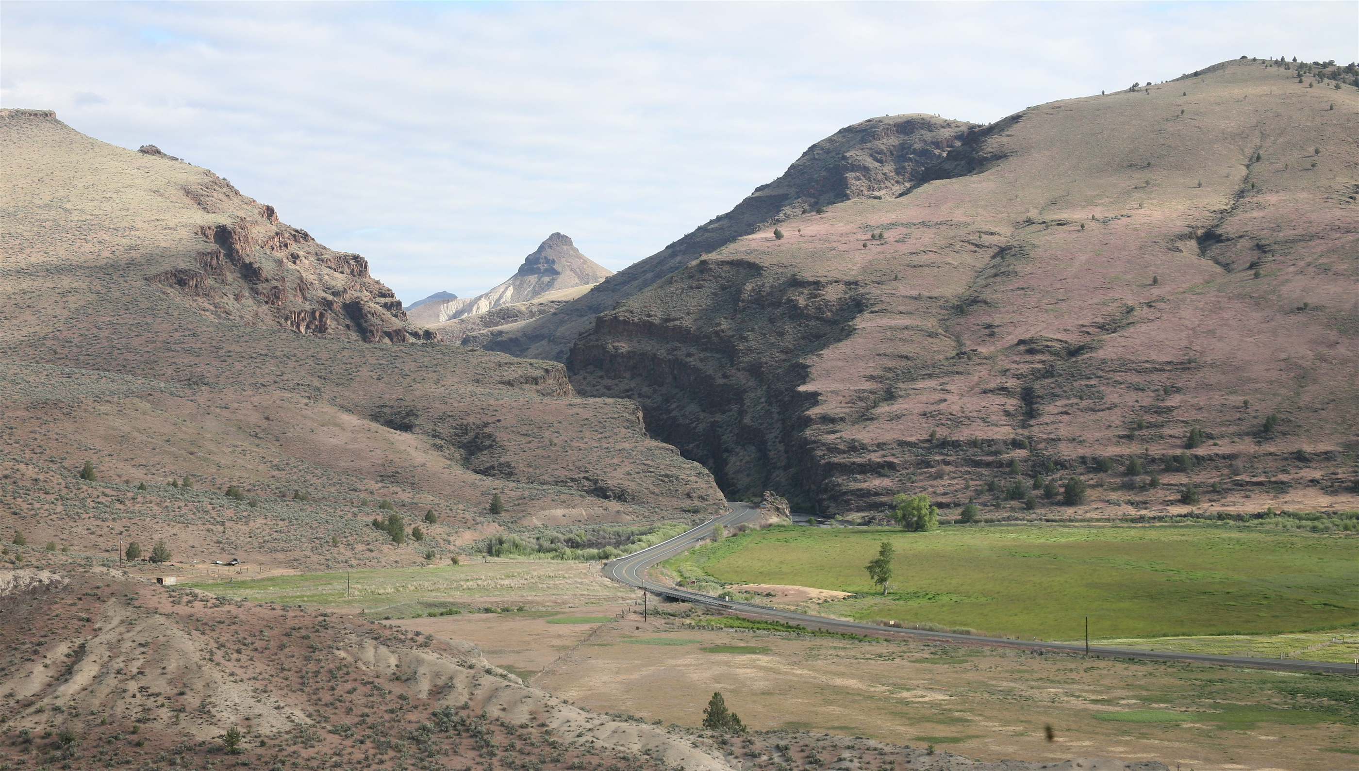 U.S. Highway 26 at the entrance to Pitcure Gorge in Eastern Oregon.